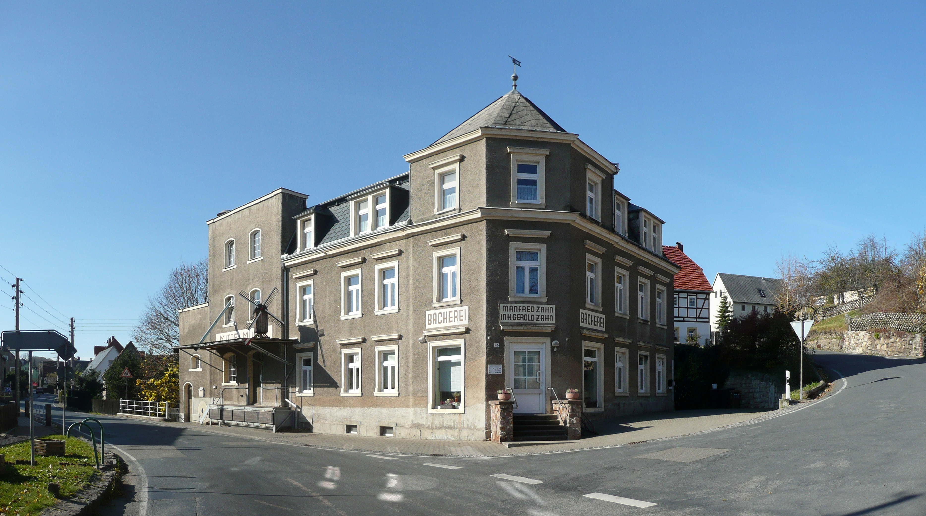 This image shows the Mittelmühle, a former watermill, in Reinhardtsgrimma in Saxony.